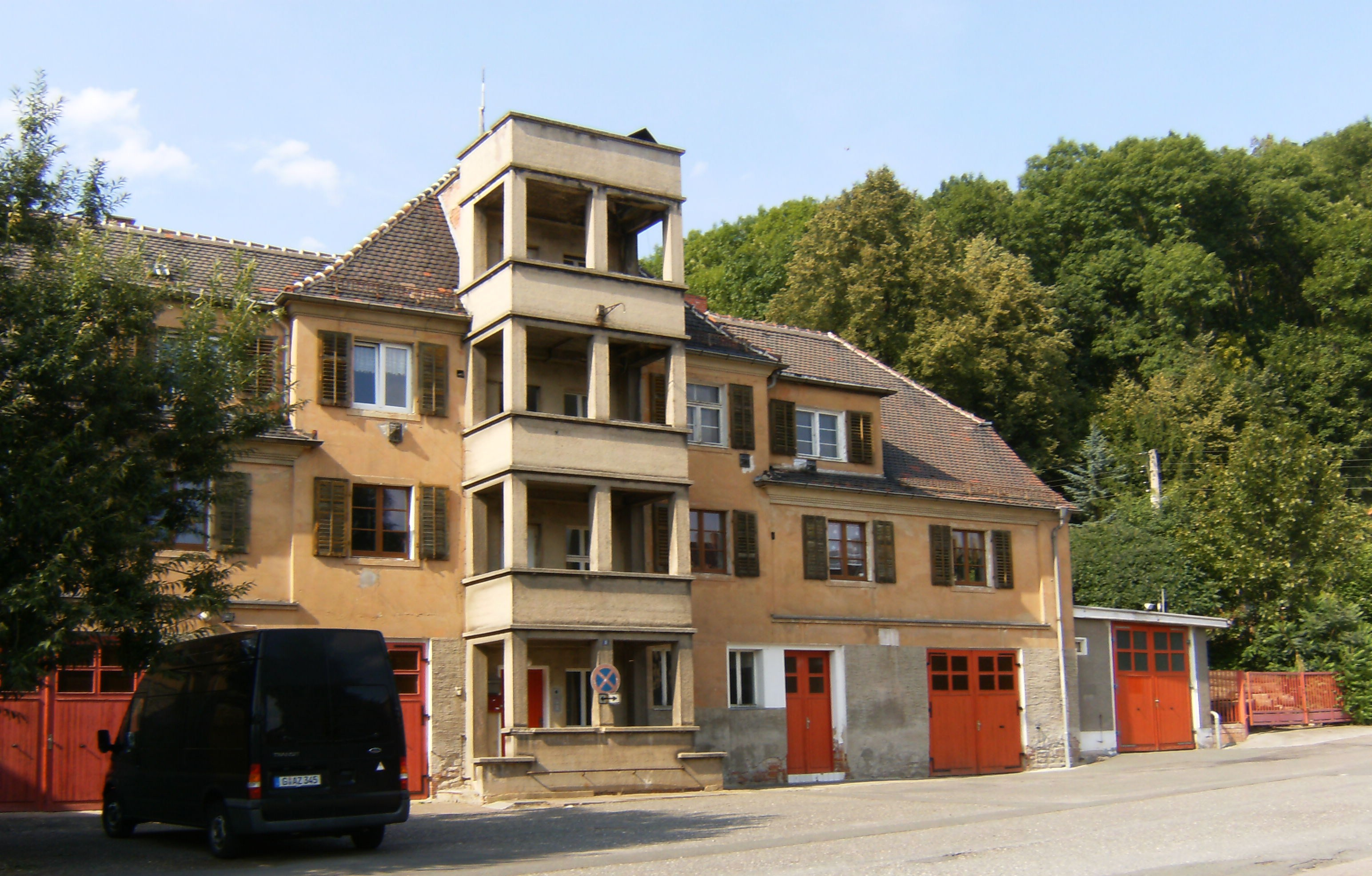 Gera Langenberg brand watch building from the beginning 20th century (closed in 2008).